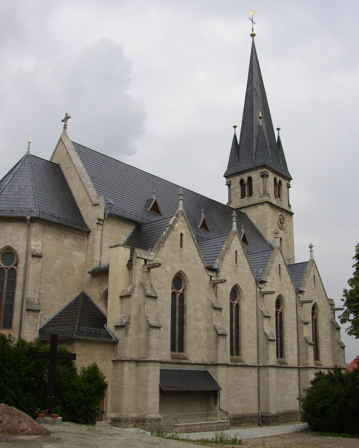 St. Mary Magdalene's Church in Leinefelde (Eichsfeld) in Thuringia, Germany